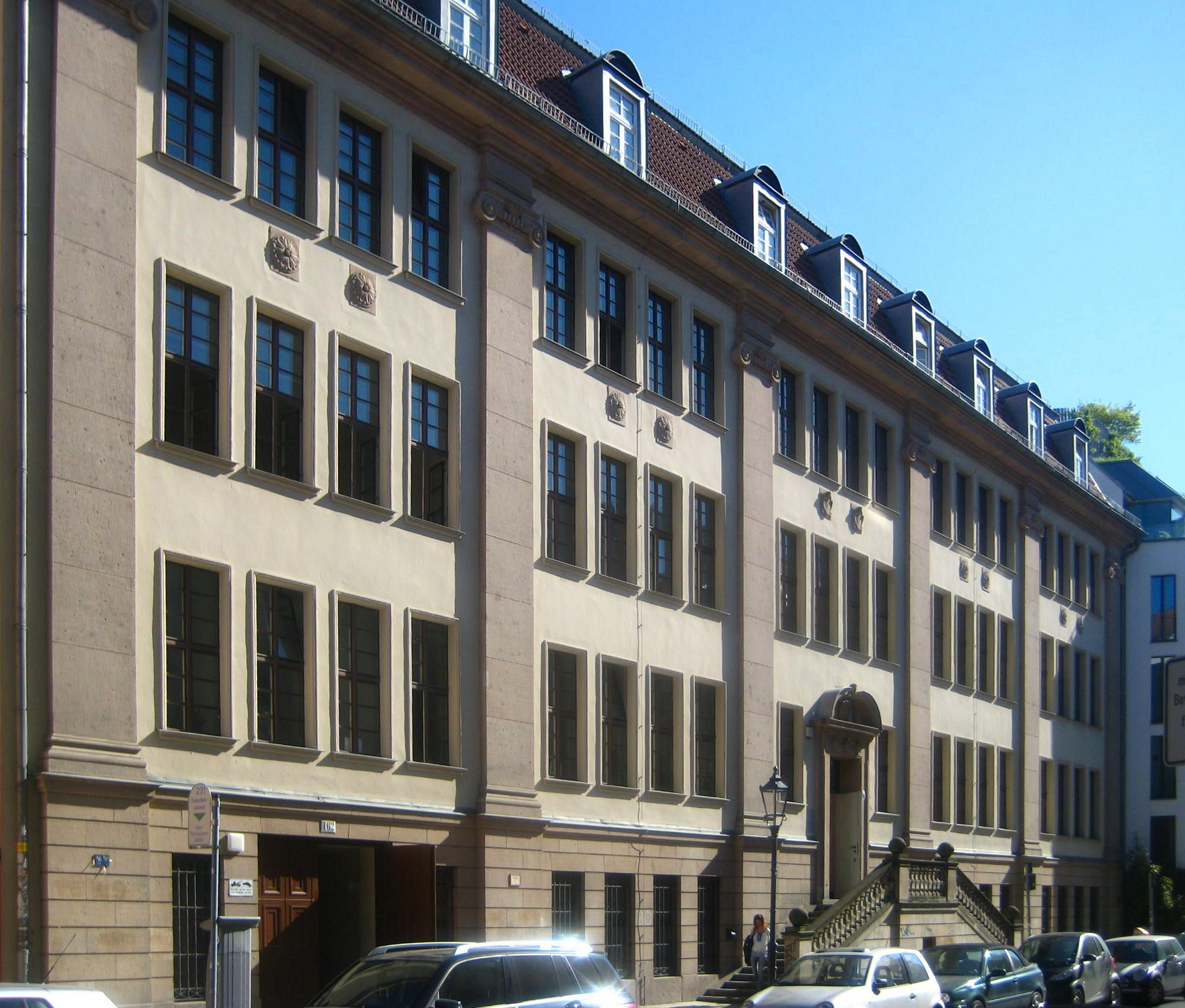 The City Folk High School (Volkshochschule) Berlin-Mitte at Linienstraße No. 162 in Berlin-Mitte. It was built from 1910 to 1911 to a design by Ludwig Hoffmann as professional and adult school; the modest sculptural work at the facade is by Josef Rauch. The building has been designated as a historic landmark.